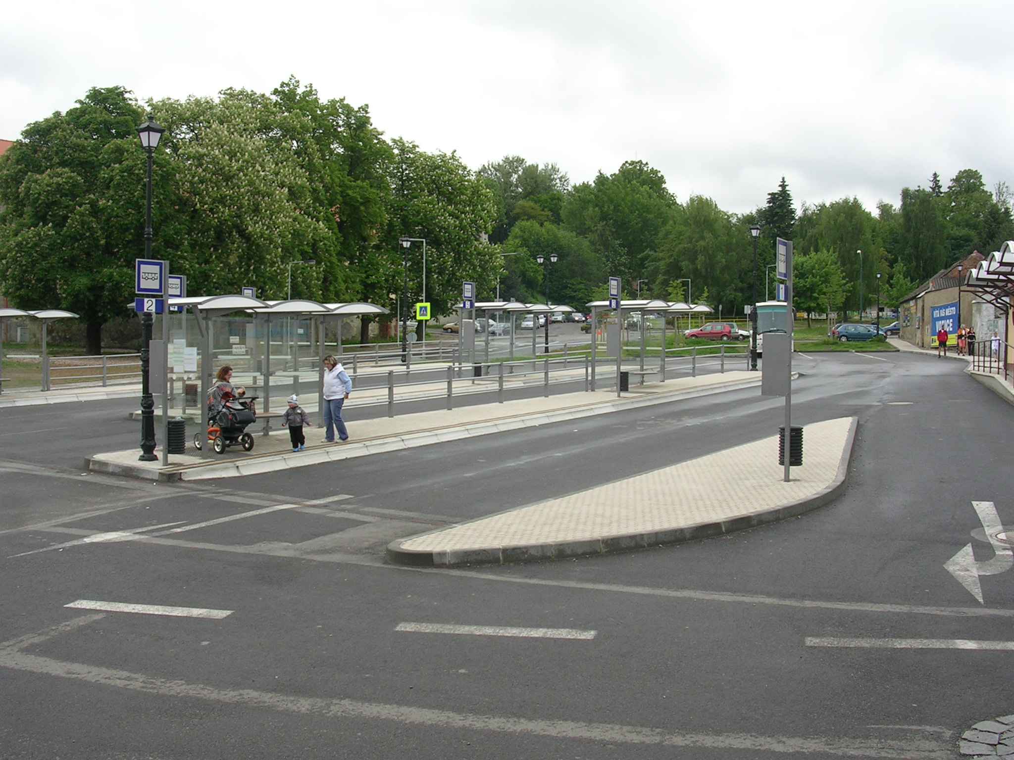 Votice, Benešov District, Central Bohemian Region, the Czech Republic. A bus station.